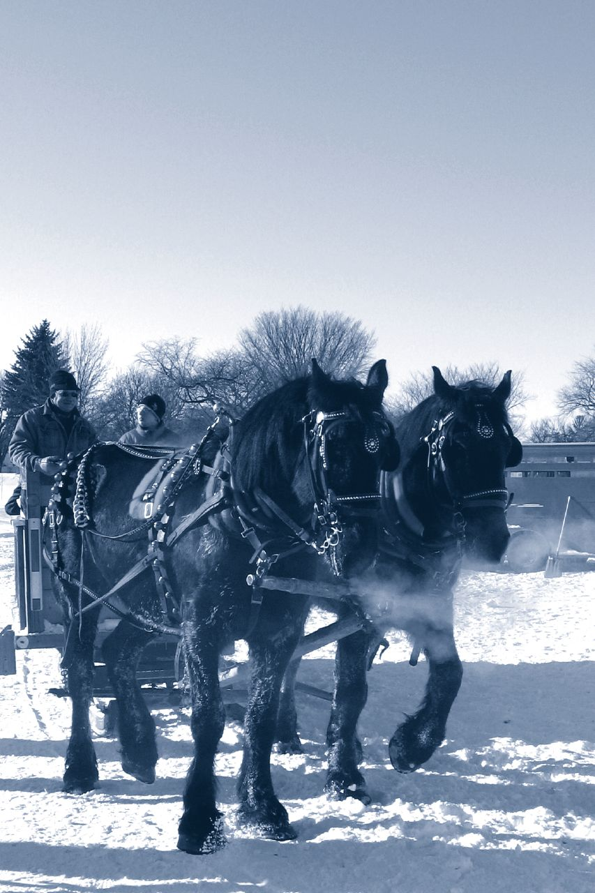 Horse and sleigh at Lincoln Drive Park, Grand Forks, N.D.